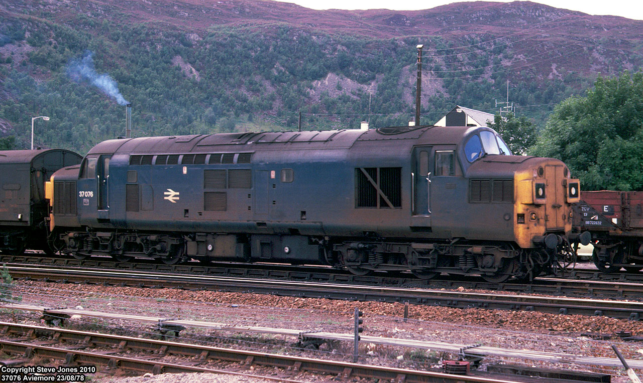 37076 at Aviemore on 23/08/78. Scanned from a Kodachrome 64 colour slide.